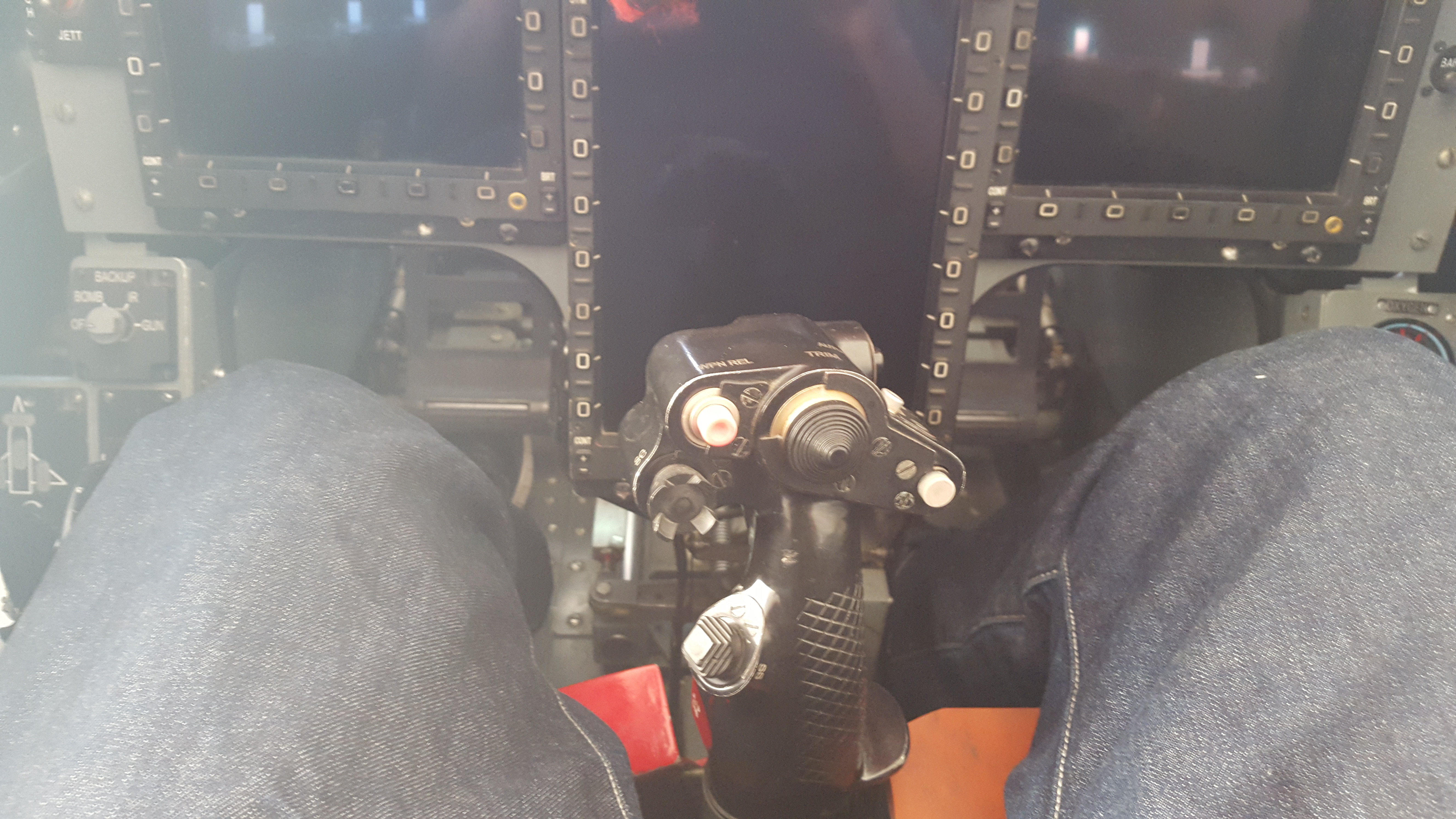 Block 1